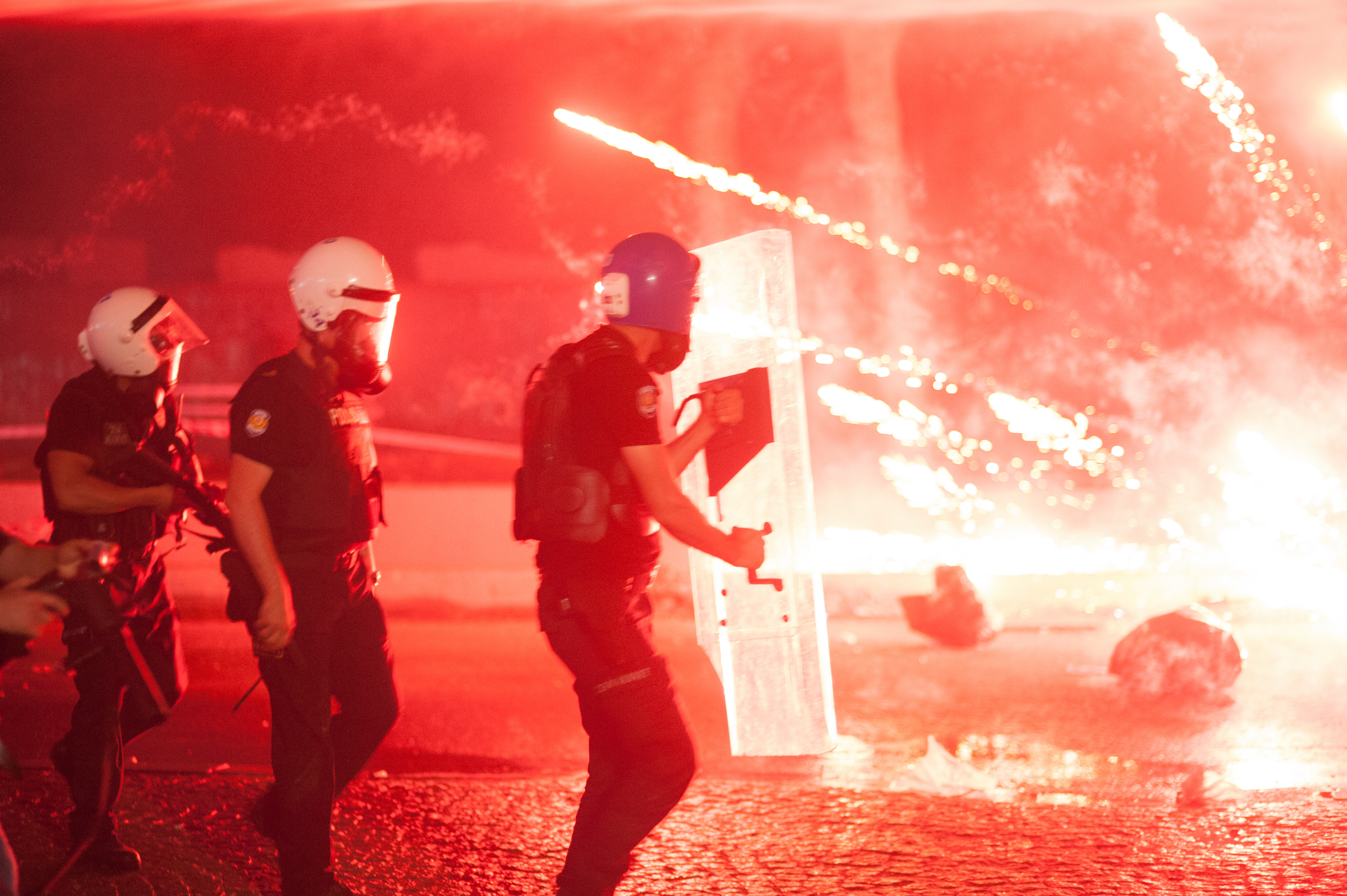 Police action during Gezi park protests in Istanbul. Events of June 16, 2013.